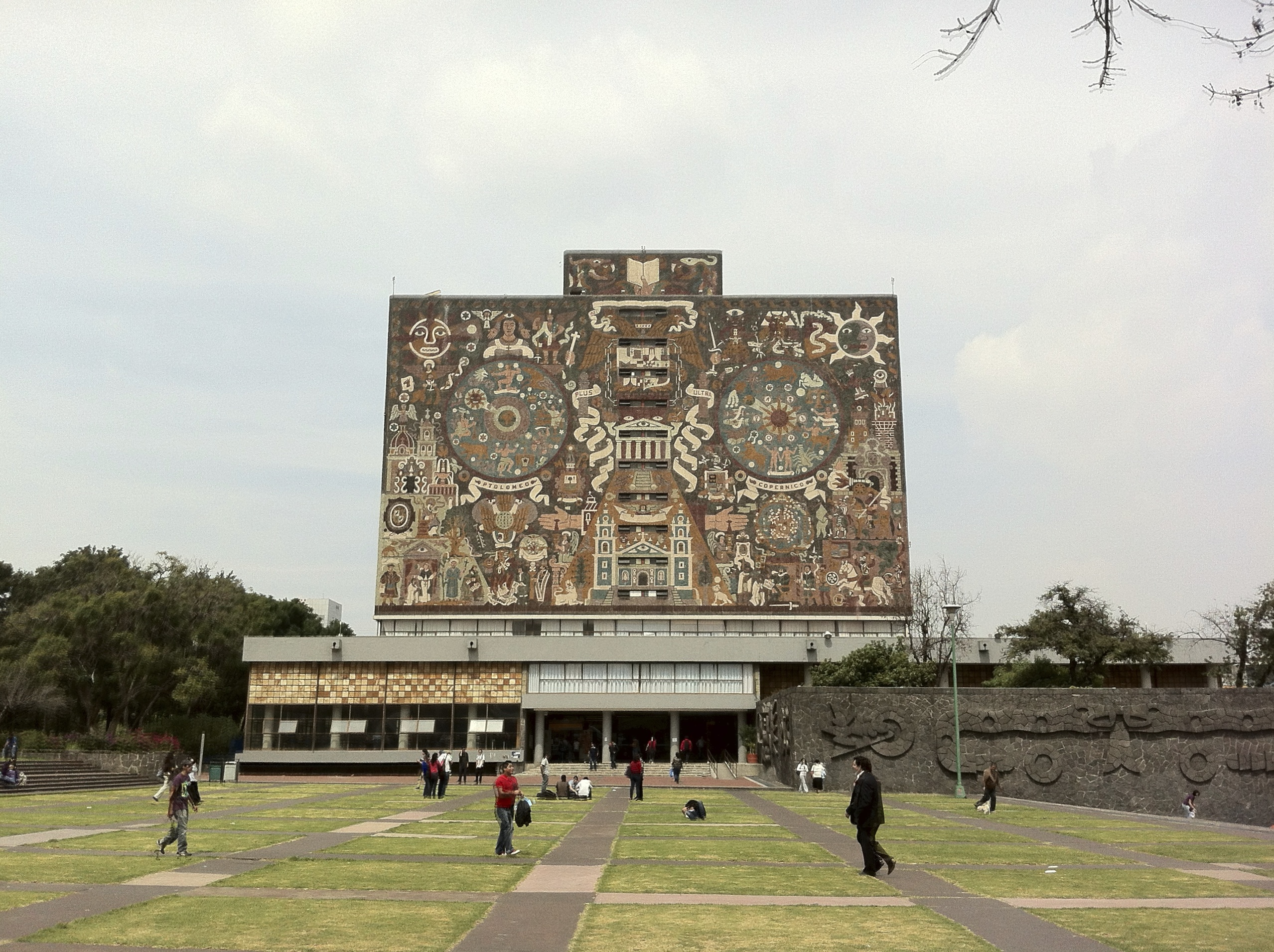 Biblioteca Central de la UNAM.